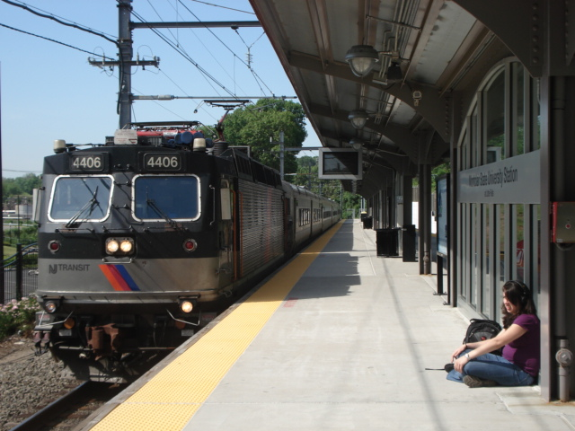 Montclair University Station